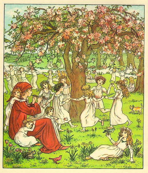 Illustration from The Pied Piper of Hamelin